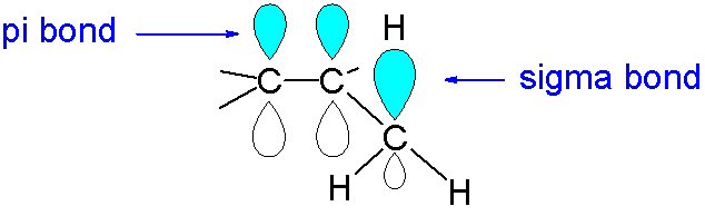 Hyperconjugation